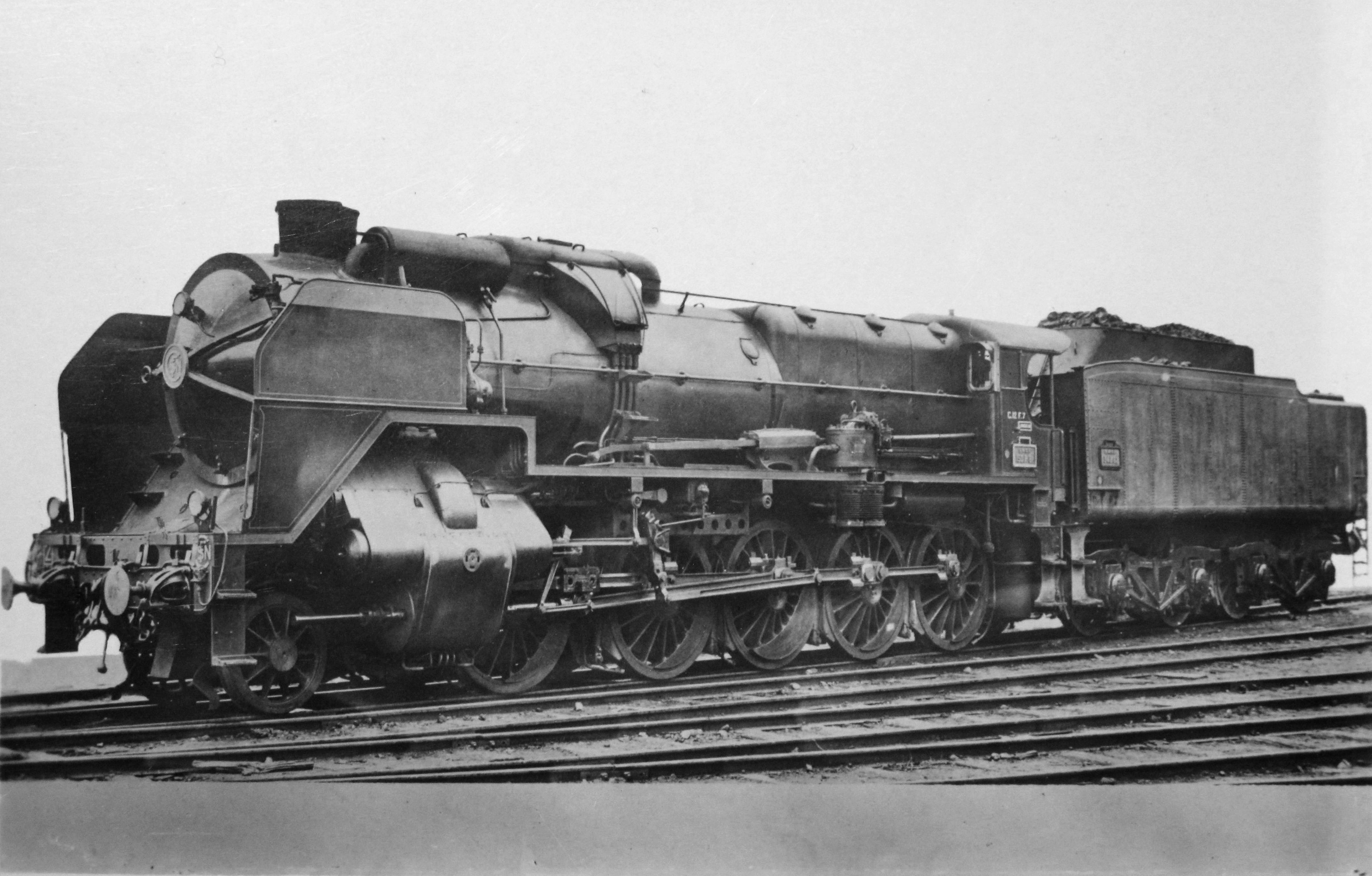 Locomotive type 2-10-0 of SNCF